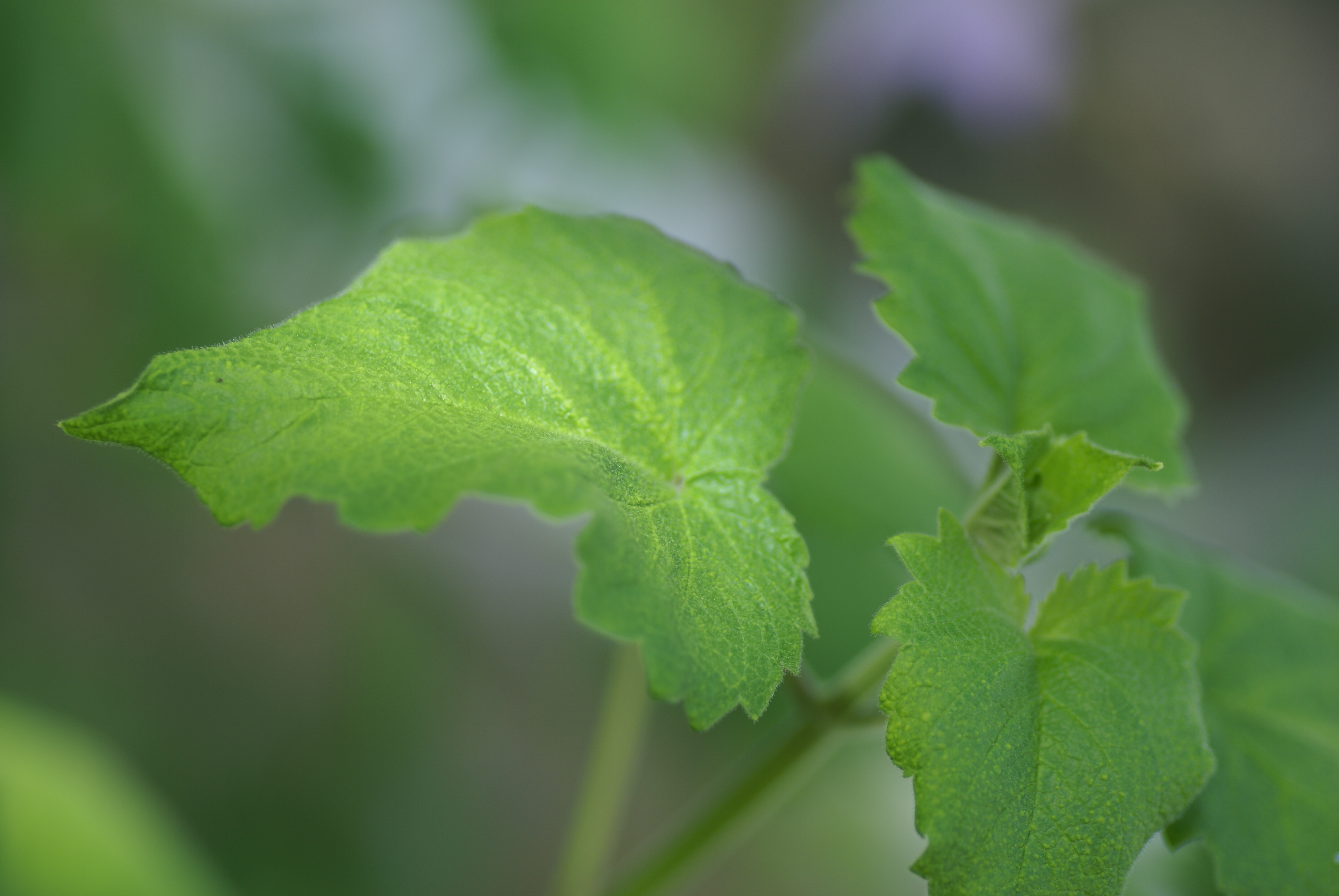 Plant species Ceratotheca triloba in botanical garden in Helsinki city